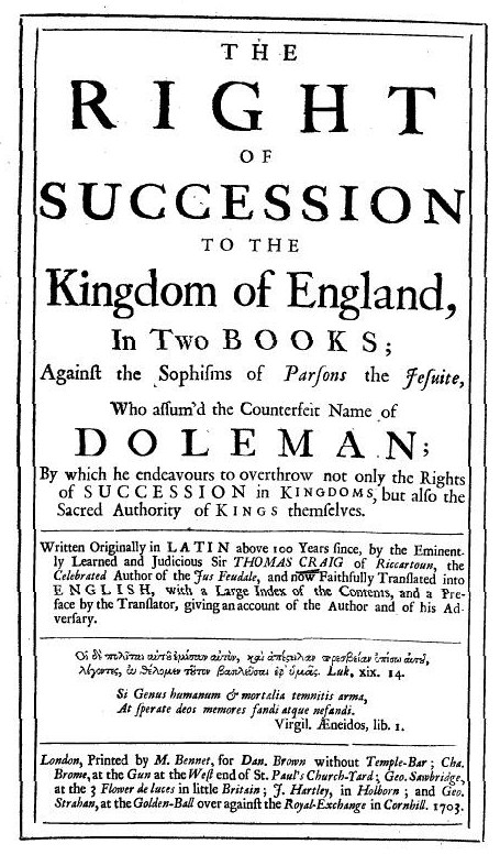 Title page of The Right of Succession to the Kingdom of England (1703), English translation of a Latin work by Sir Thomas Craig (c. 1538–1608), Scottish jurist.